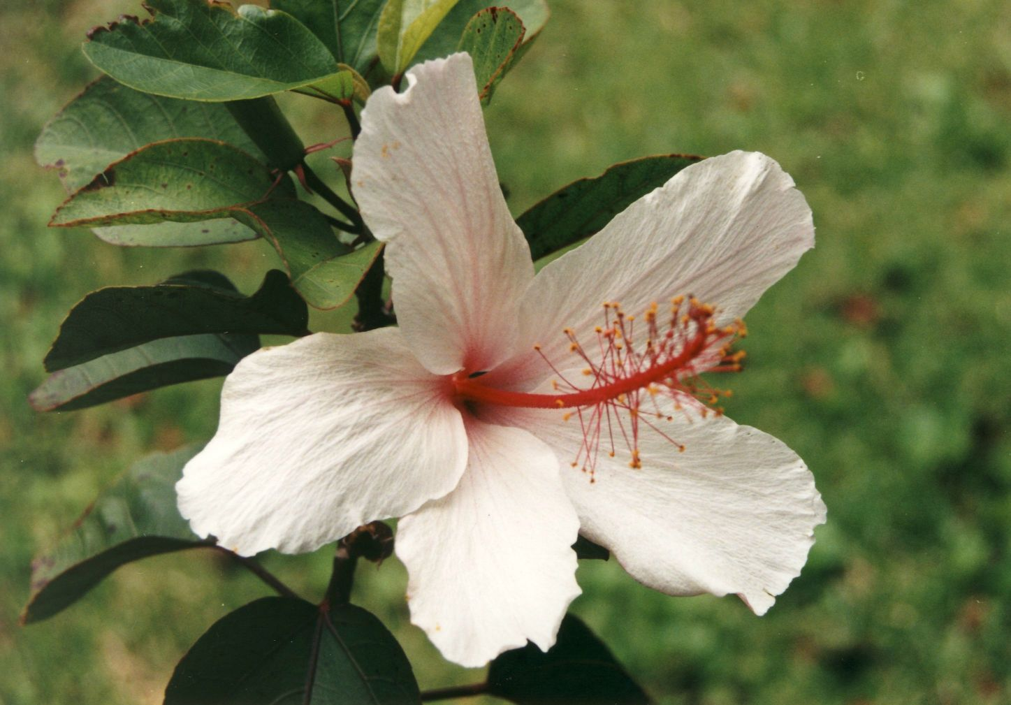 Cultivated plant, Volcano. The leaves suggest this plant is a hybrid with H. rosa-sinensis, but the flowers are those of H. arnottianus and are fragrant.